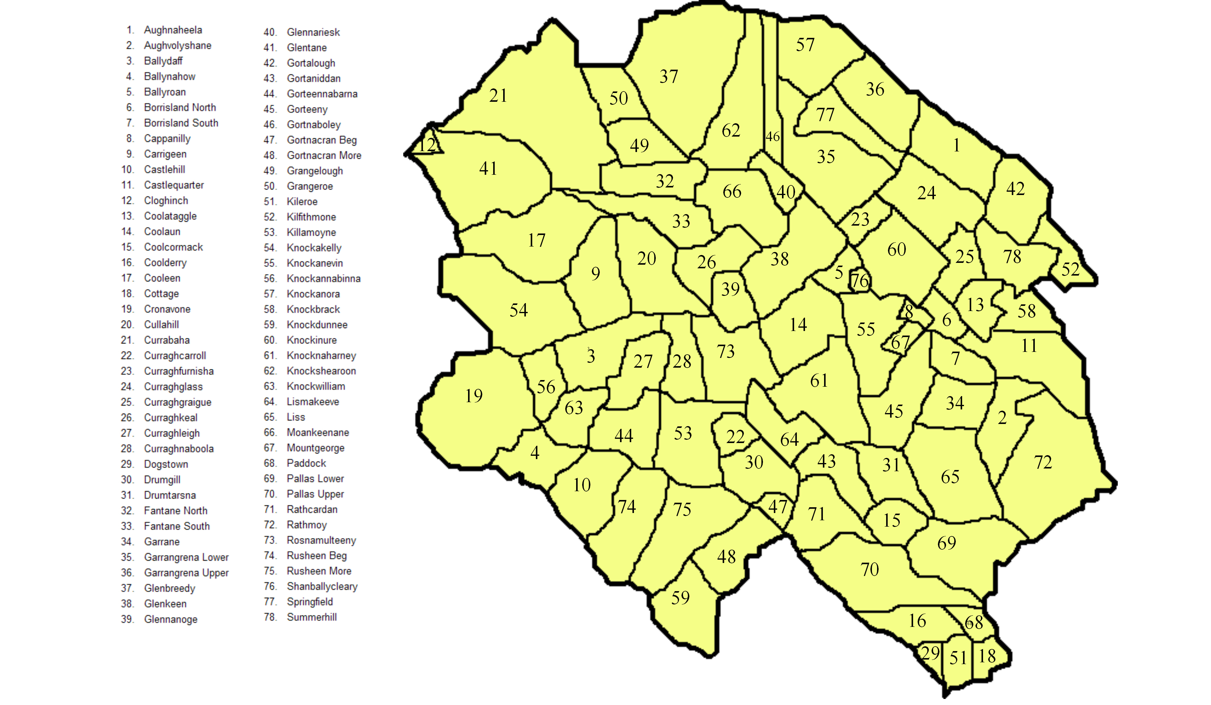 Map with legend showing townlands in Glenkeen civil parish in North Tipperary. A version of this map, without the legend and showing just the boundaries is available here. Since this civil parish is co-extensive with the Roman Catholic parish of Borrisoleigh and Ileigh, these townland boundaries also refer to the latter. This map is based on this sketch map, which seems to agree with this map.